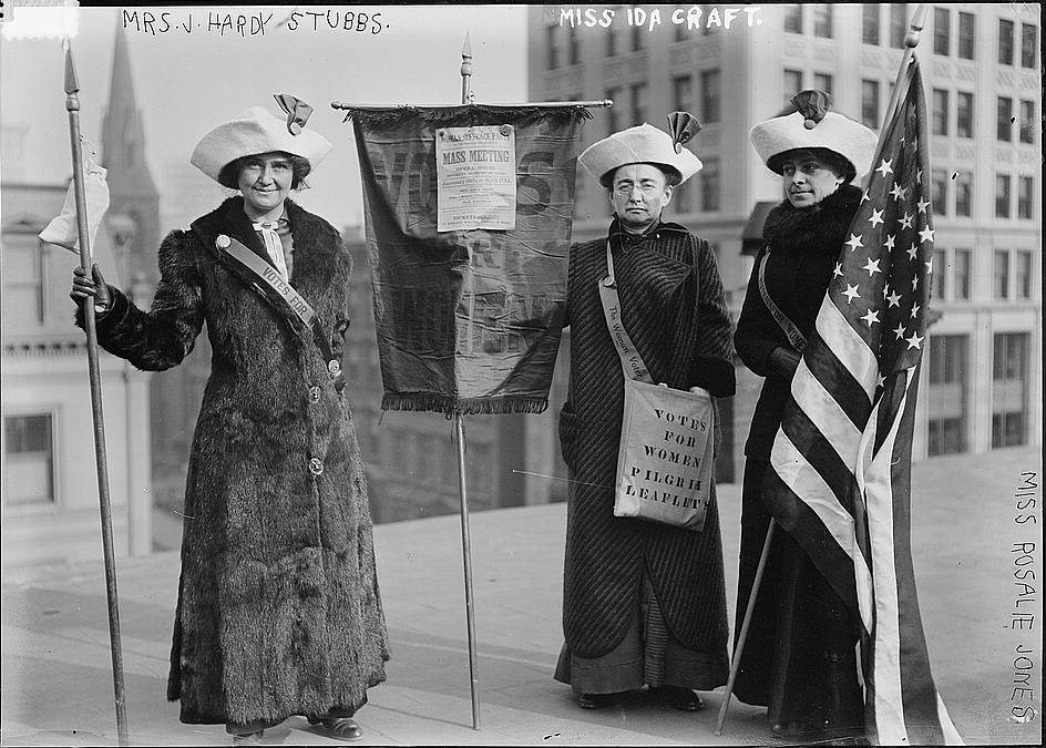 Bain News Service,, publisher. Mrs. J. Hardy Stubbs, Miss Ida Craft, Miss Rosalie Jones circa 1912-1913 [between 1910 and 1915] 1 negative : glass ; 5 x 7 in. or smaller. Notes: Title from data provided by the Bain News Service on the negative. Photo shows 3 suffragettes with bag "Votes for Women pilgrim leaflets." Forms part of: George Grantham Bain Collection (Library of Congress). Format: Glass negatives. Repository: Library of Congress, Prints and Photographs Division, Washington, D.C. 20540 USA, General information about the Bain Collection is available at Persistent URL: Call Number: LC-B2- 2472-12